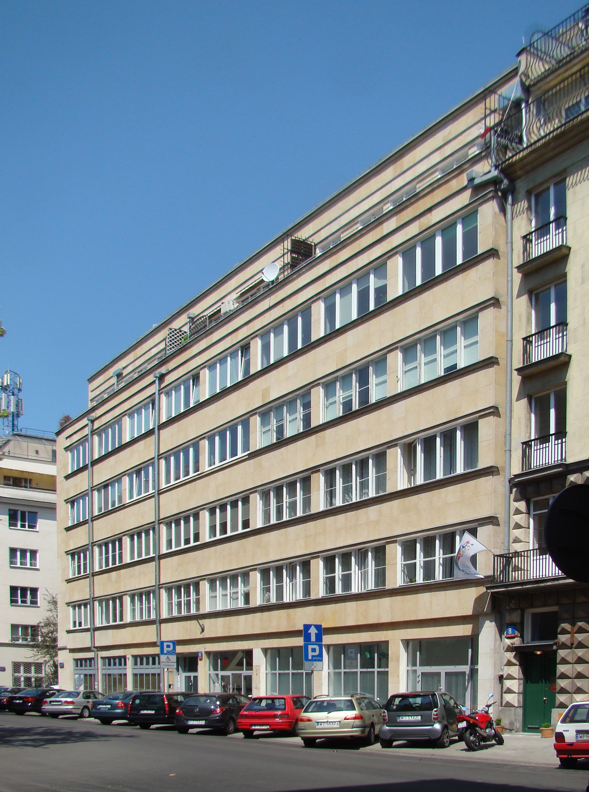 Robinson's tenement house, 10, Koszykowa St. Warsaw, built 1938